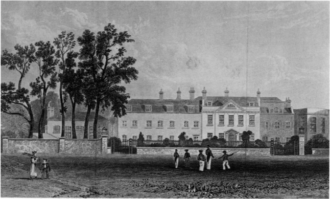 Exeter College circa 1830. The buildings subsequently became Forest School in 1834.